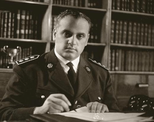 Roberto Pettinato, first holder of the National Direction of Penal Institutes in Argentina.